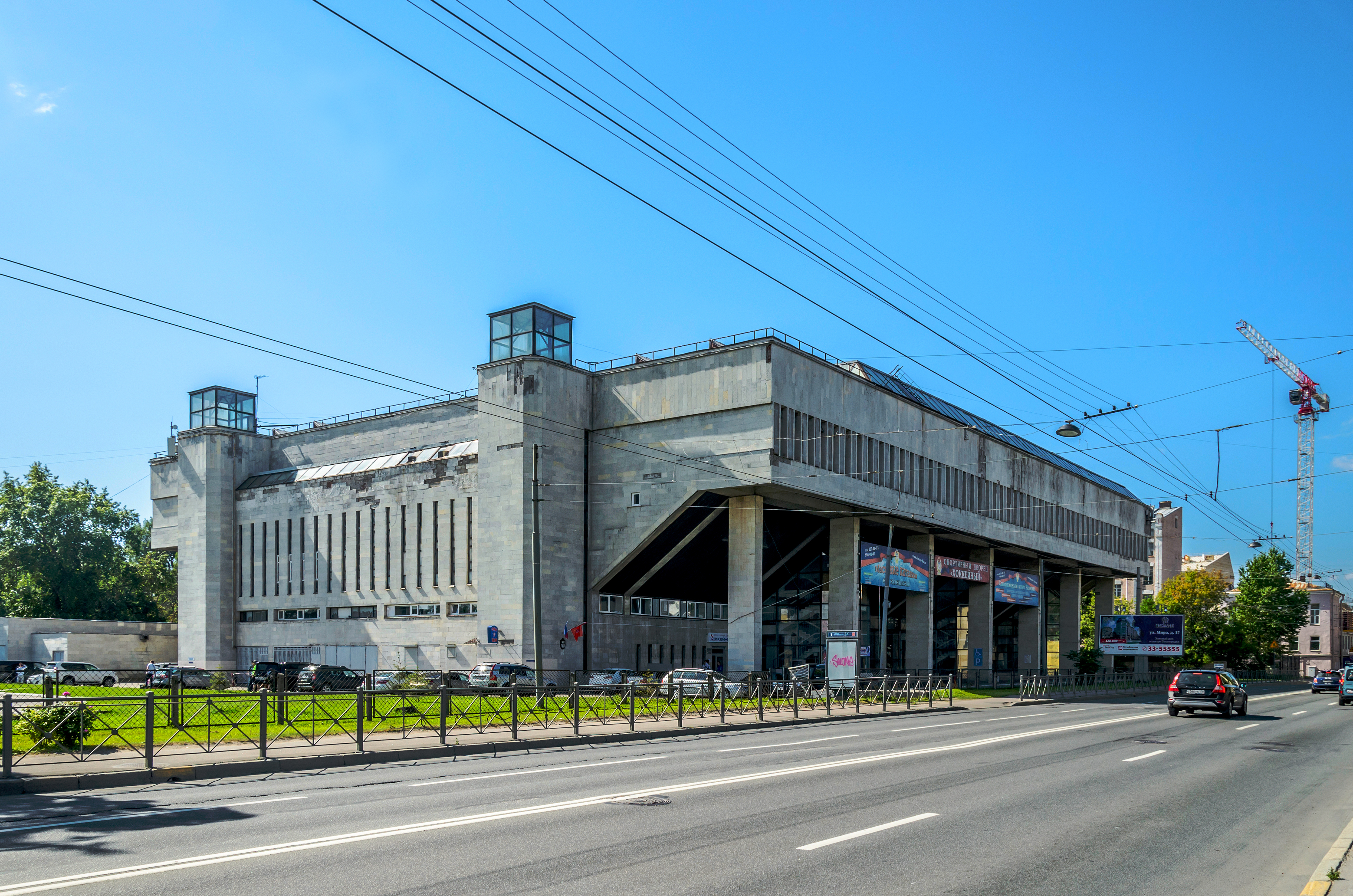 SKA Saint Petersburg Hockey Stadium at Zhdanovskaya Street in Saint Petersburg